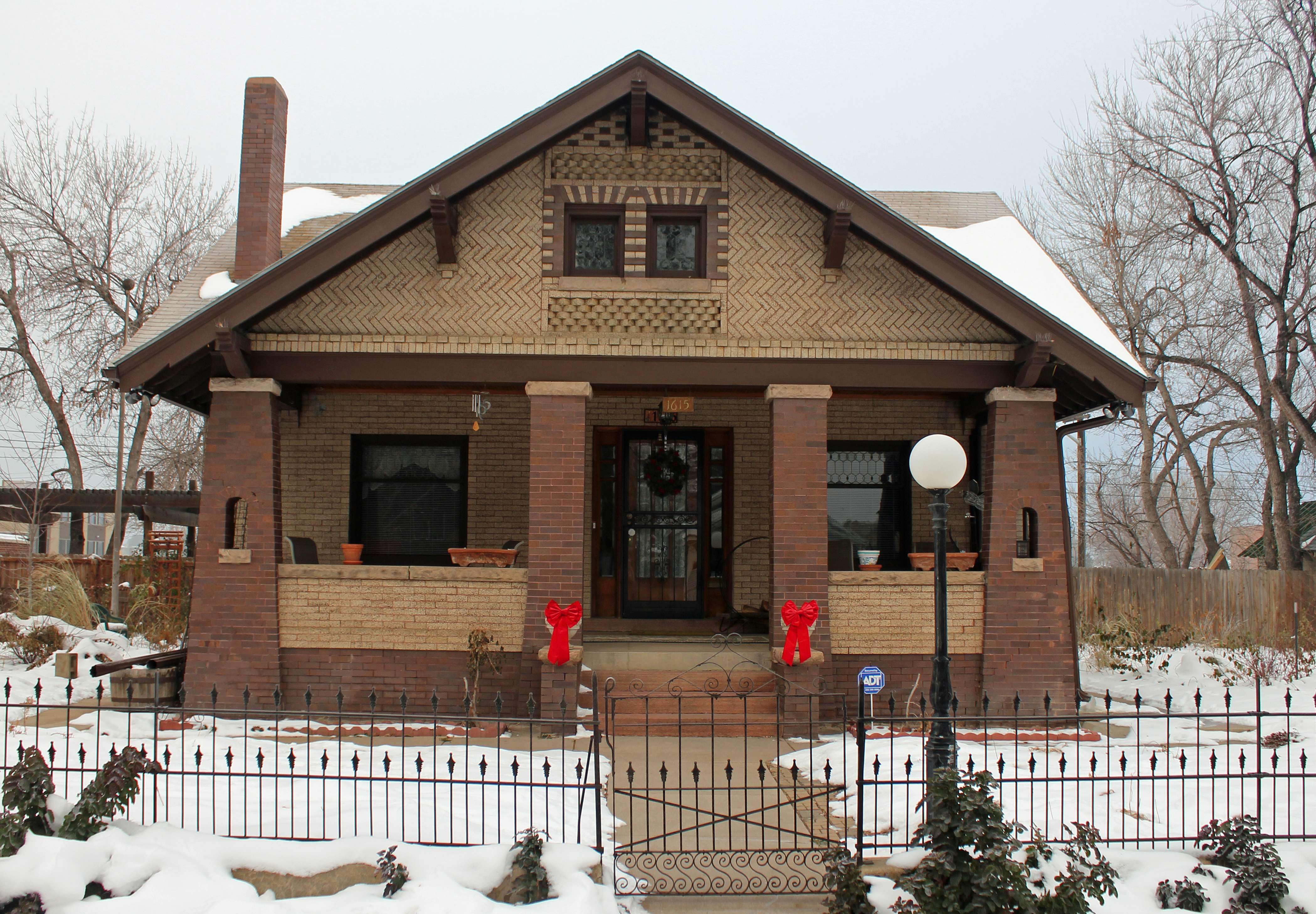 The M.J. Lavina Robidoux House, located at 1615 Galena Street in Aurora, Colorado. The property is listed on the National Register of Historic Places.